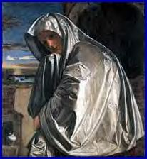 from [1]